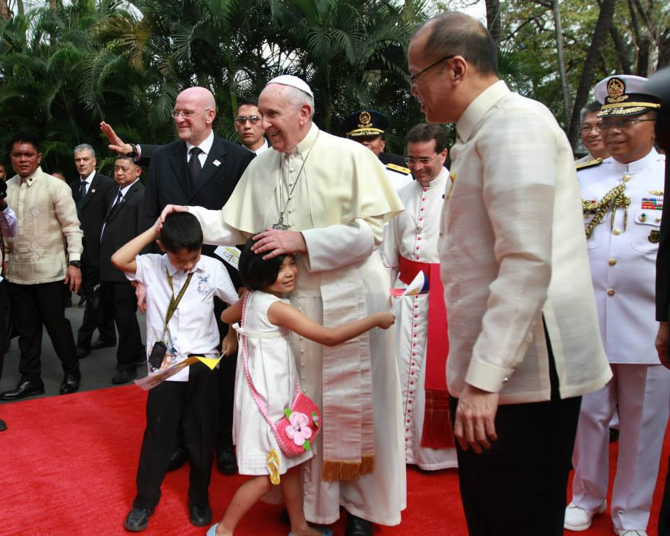 His Holiness Pope Francis, accompanied by President Benigno S. Aquino III, hugs children at the garden area of the Malacañan Palace during the welcome ceremony for the State Visit and Apostolic Journey to the Republic of the Philippines on Friday (January 16, 2015)